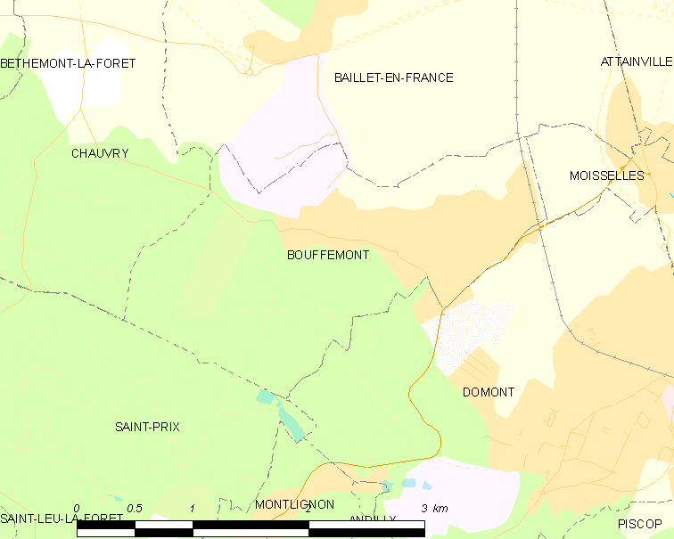 Map of French municipality Bouffémont